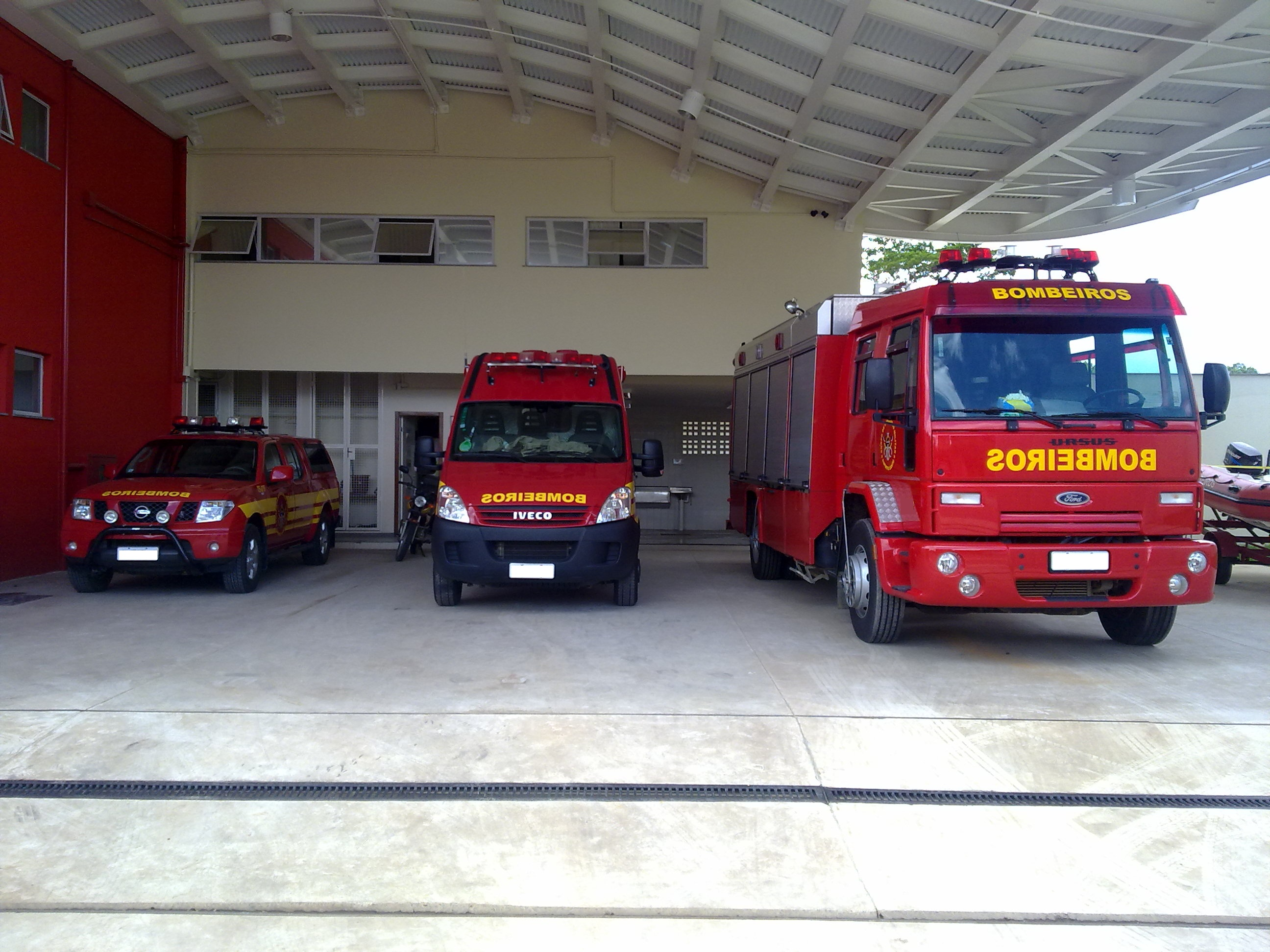 Iveco Daily Mk4, Ford Cargo fire engines.